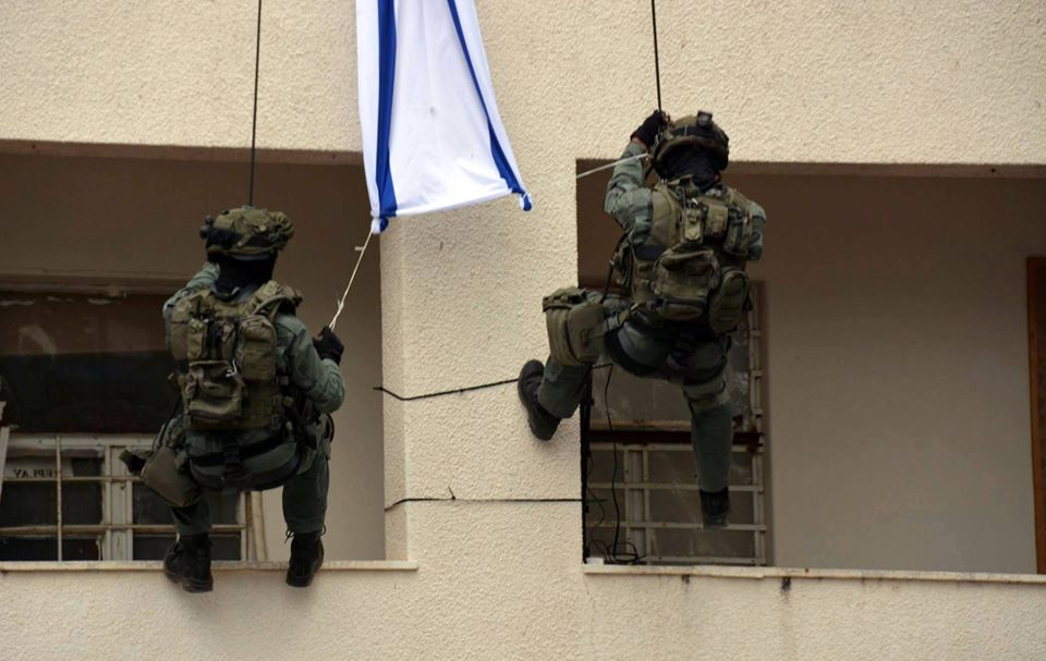 Israeli counter-terror unit YAMAM during Independence Day demonstration